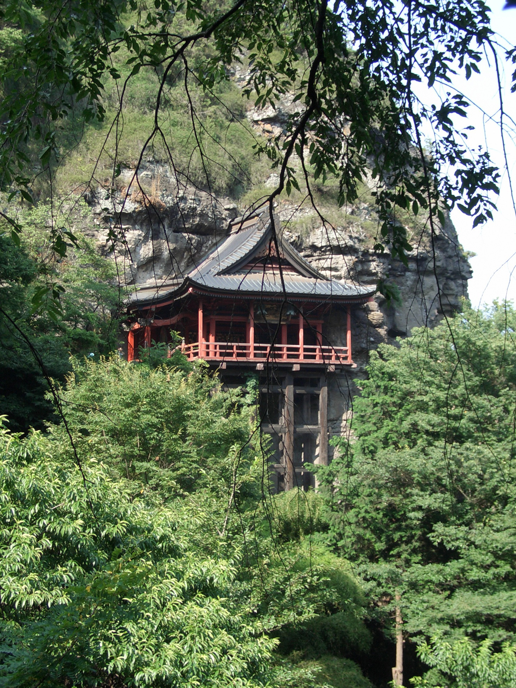 Nunohiki-Kannon, Komoro Nagano Japan.